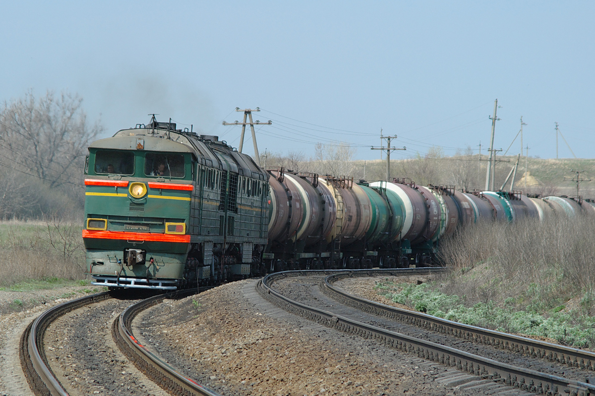 Diesel locomotive